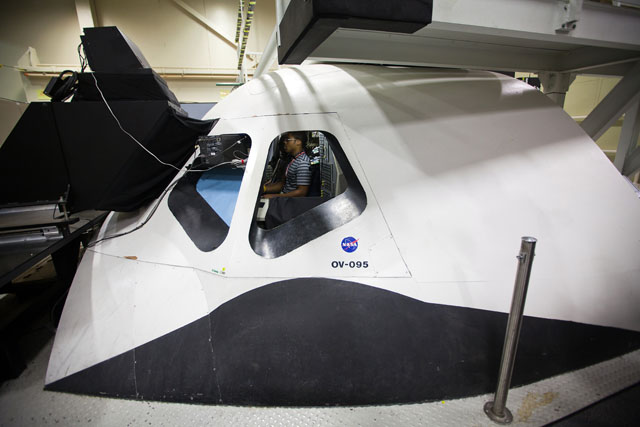 A NASA intern pilots the shuttle for a simulated landing in the Shuttle Avionics Integration Laboratory (SAIL).